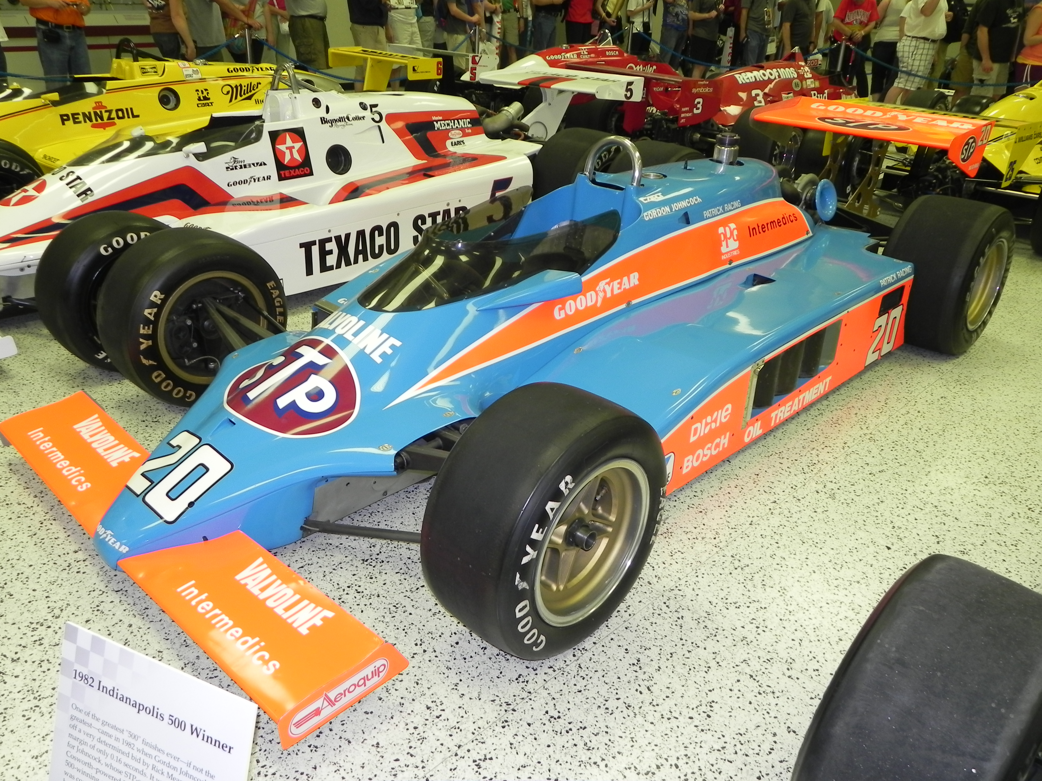 Image of the winning car of the 1982 Indianapolis 500 (Gordon Johncock). Photo was taken at the Indianapolis Motor Speedway Hall of Fame Museum, during the month of May 2011, at the 100th Anniversary "Ultimate Indianapolis 500 Winning Car Collection."